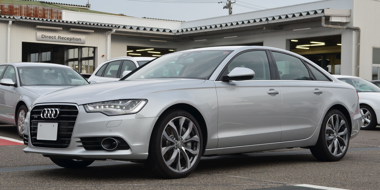 Audi A6